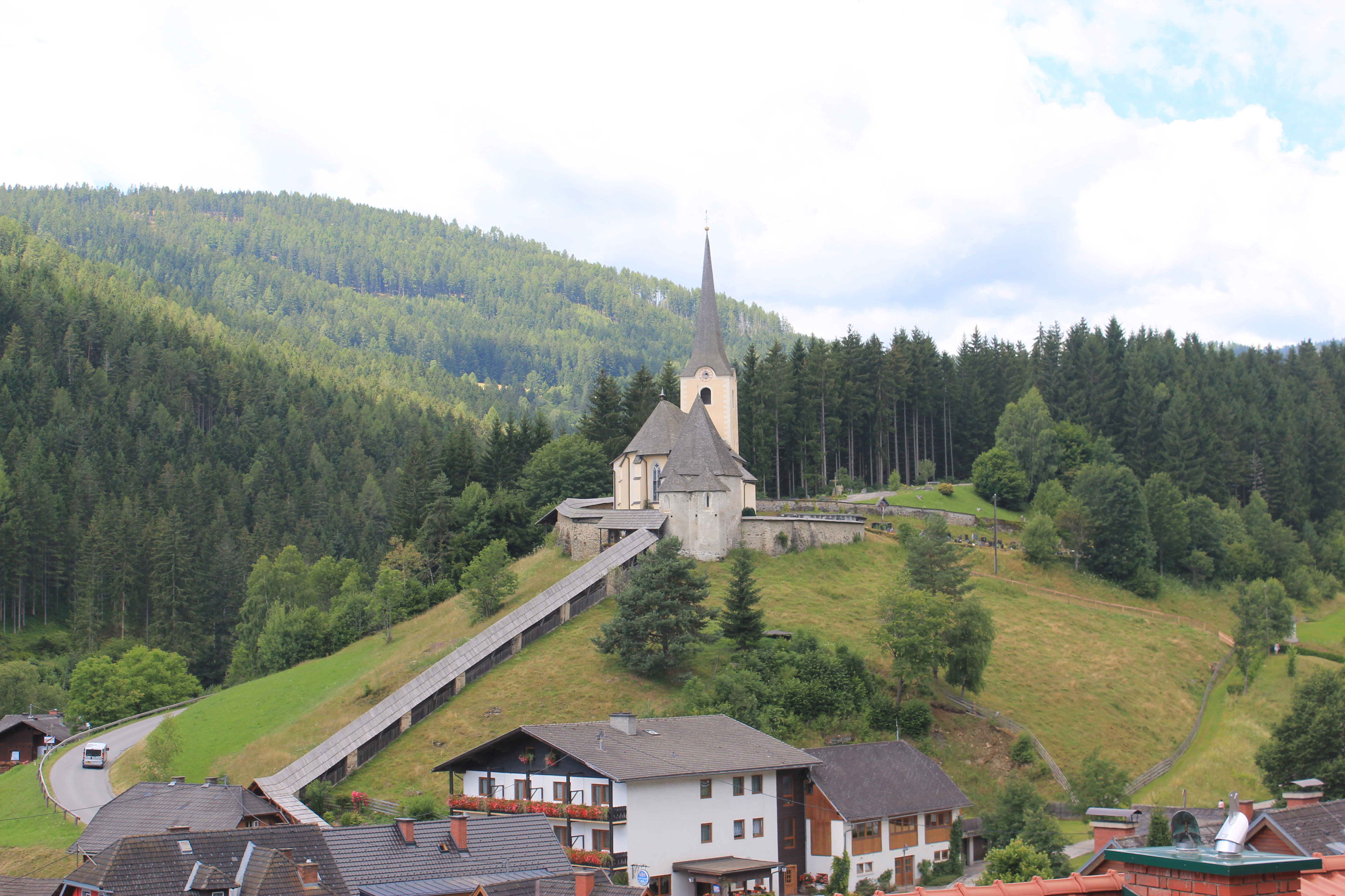 Parish church church in Deutsch-Griffen